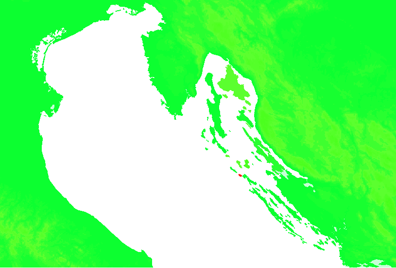 Island of Croatia Croatia - Skarda.PNG